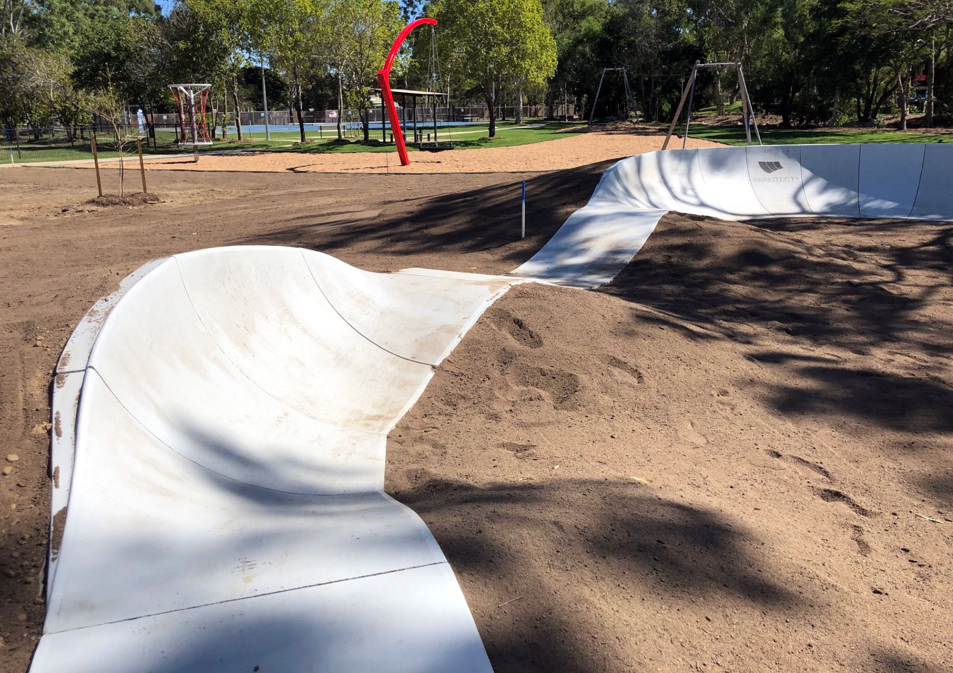 Precast Concrete Modular Pumptrack for bikes scooters and skateboards. Pump tracks are sometimes also referred or found in bike parks, scooter parks, skateparks.